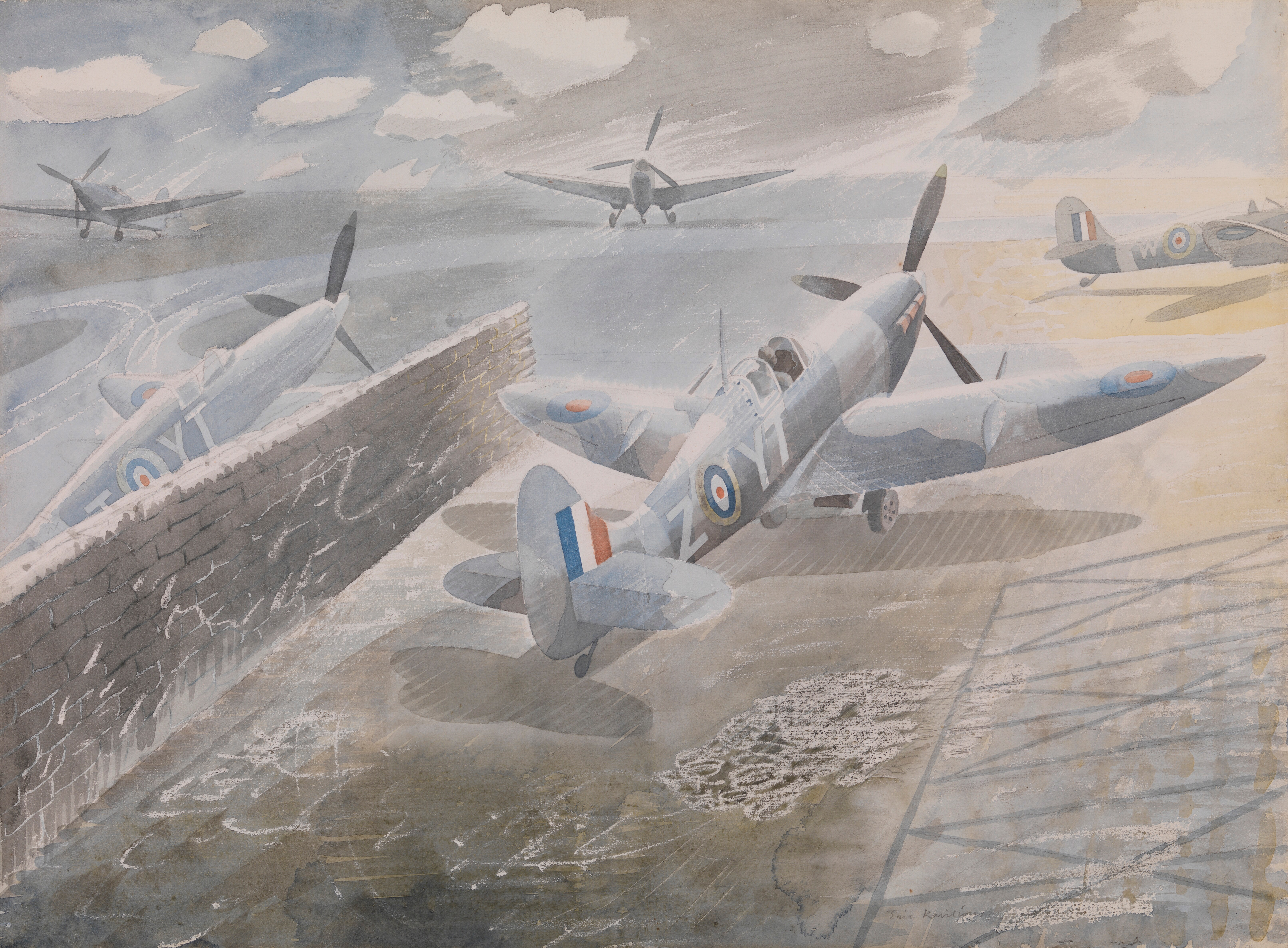 A view of five Spitfires on an airfield. The two Spitfires in the foreground stand side by side with a brick wall between them.